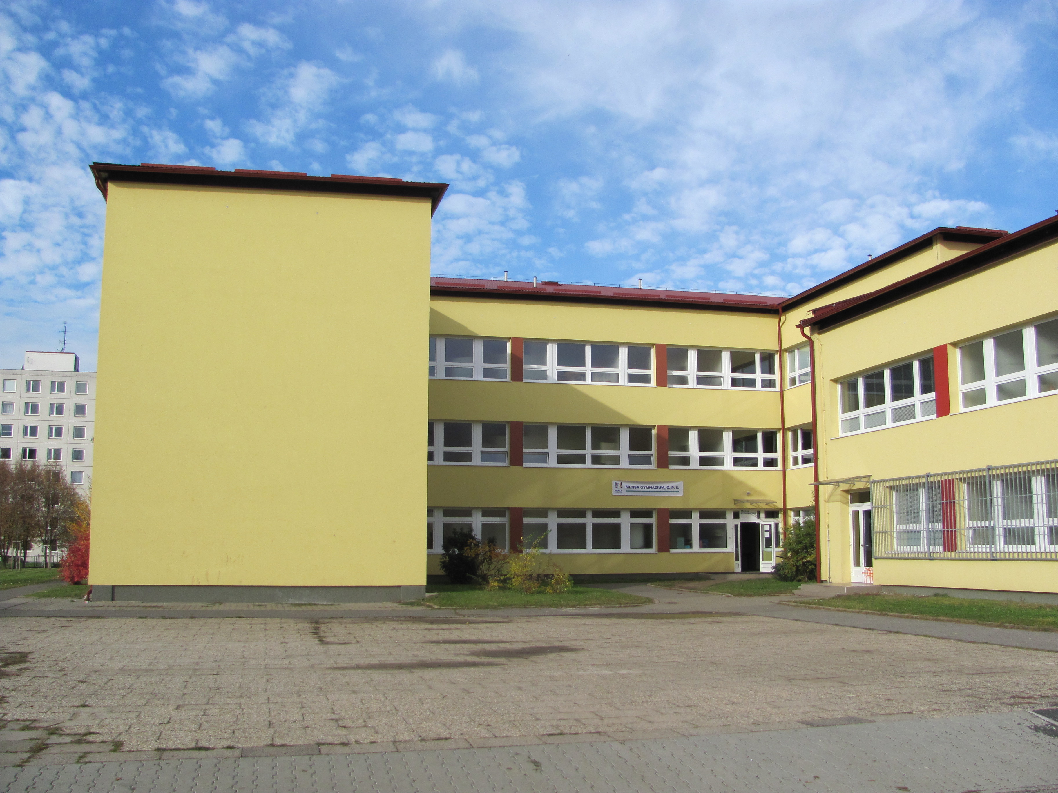 Gymnasium (high school) for gifted children, founded in 1993 by Mensa Czech Republic and from 2010 located in Prague – Řepy in this building.